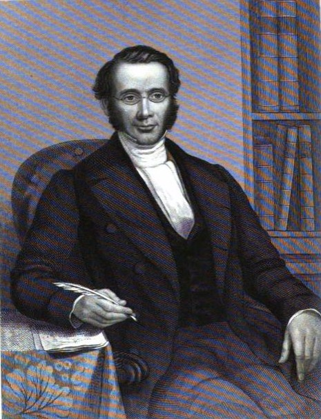 Portrait of Benjamin Parsons (1797–1855), English Congregational minister.